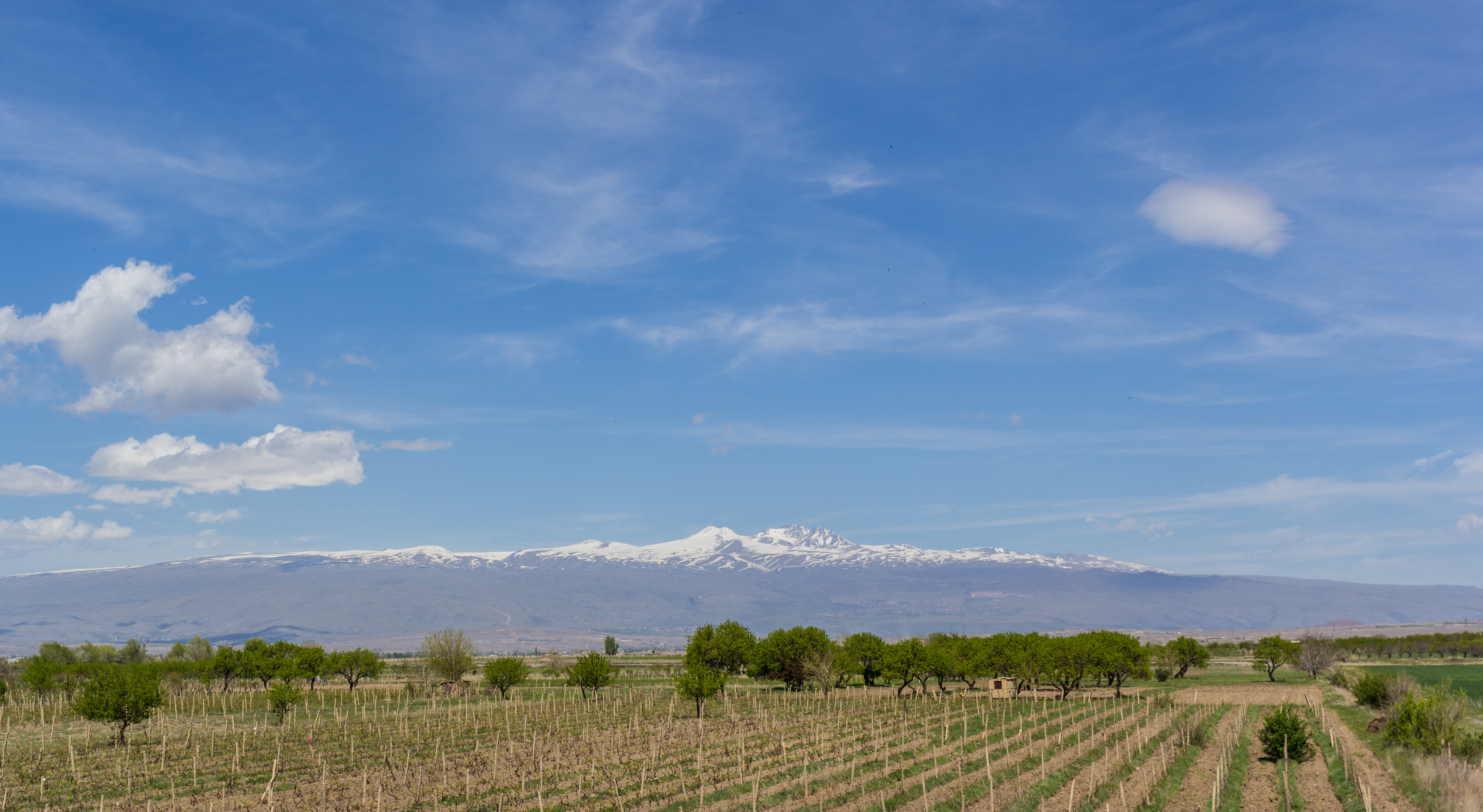 Mount Aragats as viewed from Etchmiadzin.